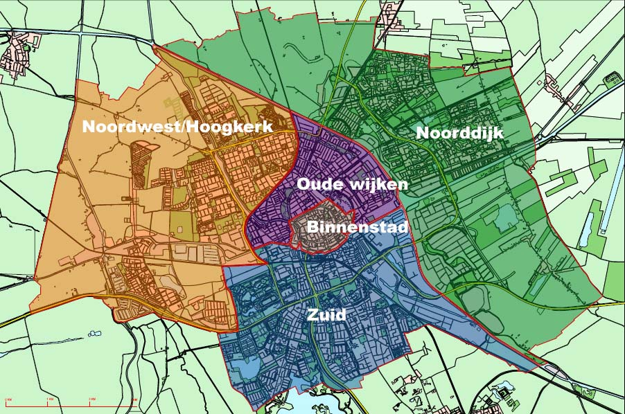 Groningen city boroughs